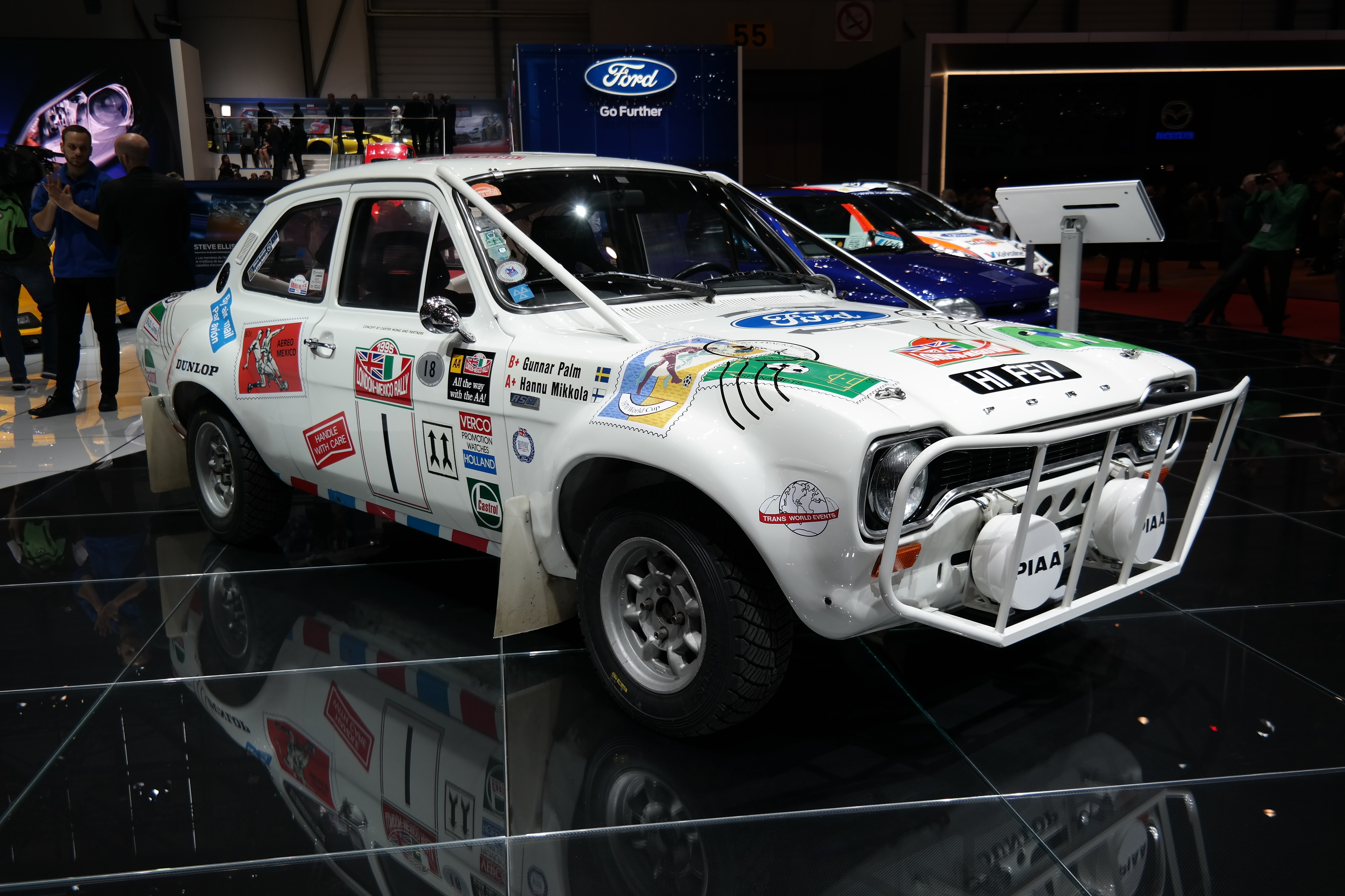 Geneva Motor Show 2017 (photo taken on the first press day)